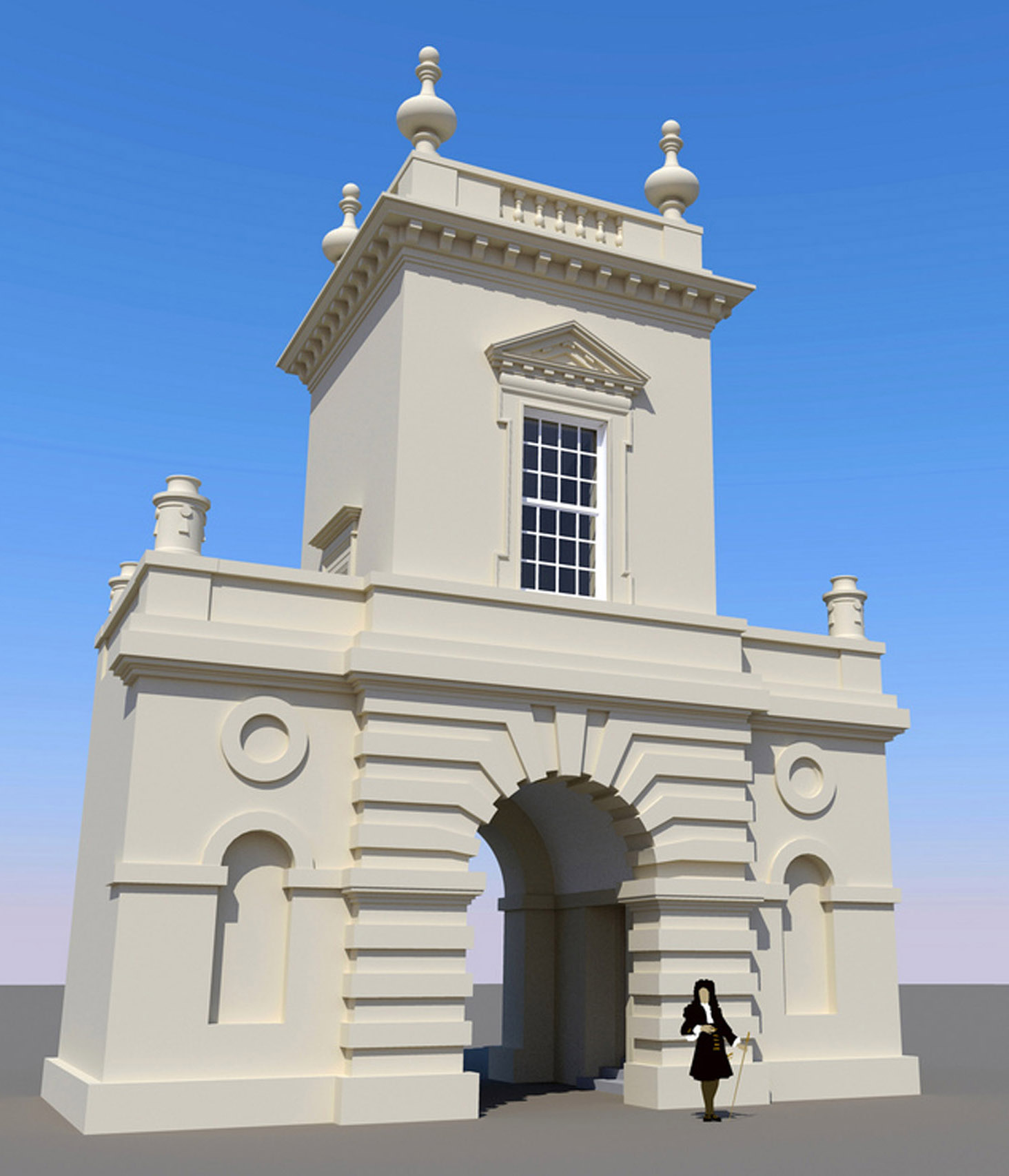 The former Penpole Lodge on the Kings Weston Estate, Bristol. A 3D reconstruction produced by the Kings Weston Action Group